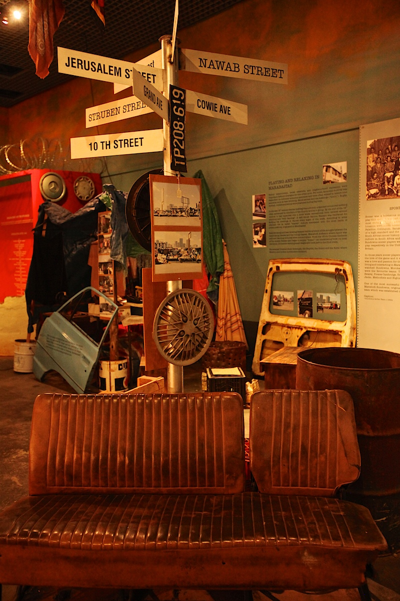 National Cultural History Museum, Boom Street, Pretoria This media shows a South African Protected Site with SAHRA file reference 9/2/258/0061.